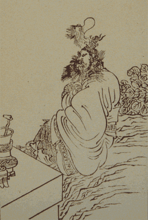 Drinking menus (酒牌, jiupai), also known as drinking counters (酒籌, jiuchou) or leaves (葉子, yezi), are used in playing drinking games and are generally made by printing poems and game rules (酒令, jiuling) on cards. This particular illustration depicts Zhang Daoling (張道陵).